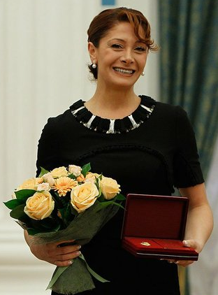 Russia's ballerina Irma Nioradze, soloist of the Mariinsky Ballet St. Petersburg